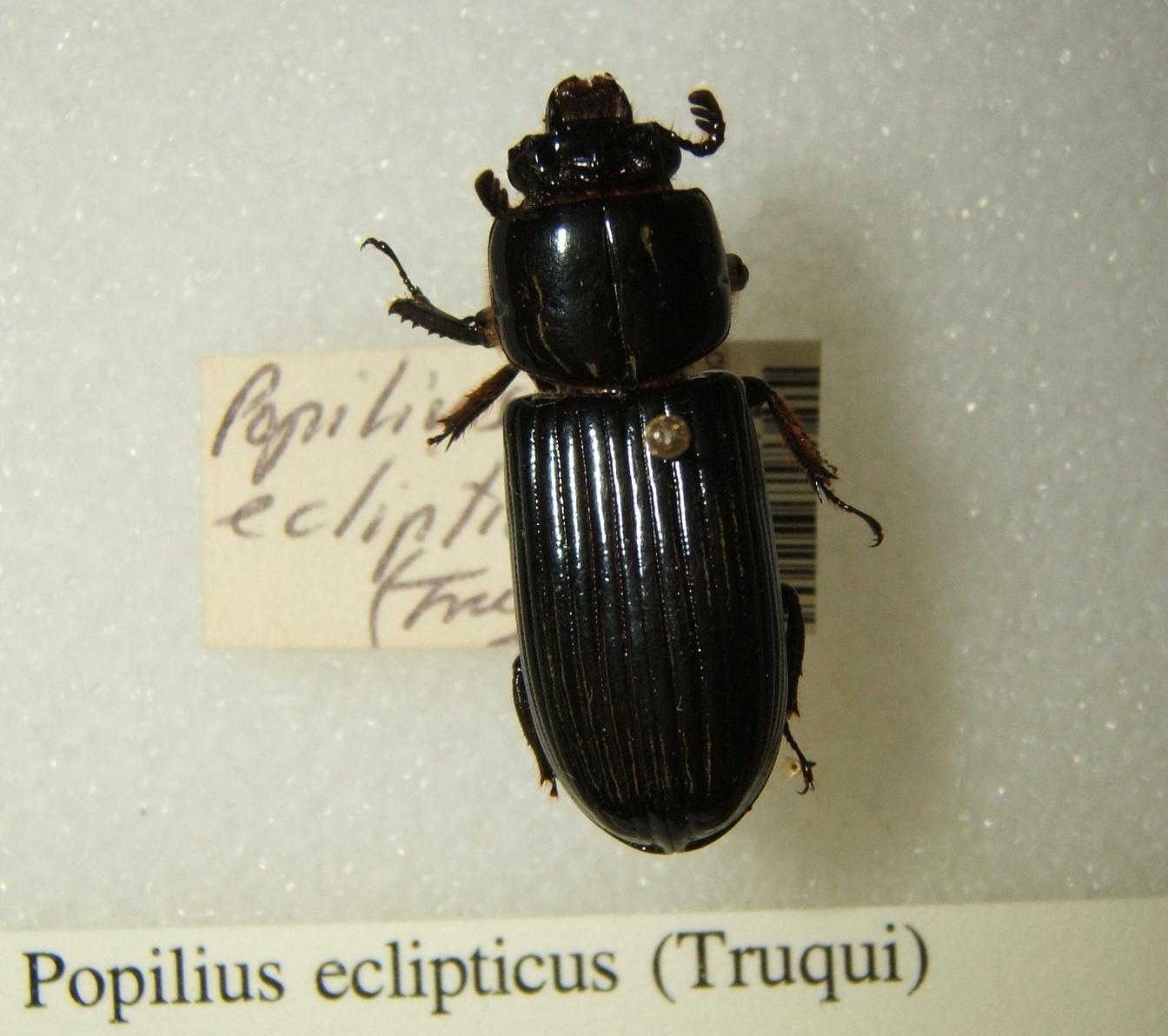 Popilius eclipticus adult taken by Shawn Hanrahan at the Texas A&M University Insect Collection in College Station, Texas.